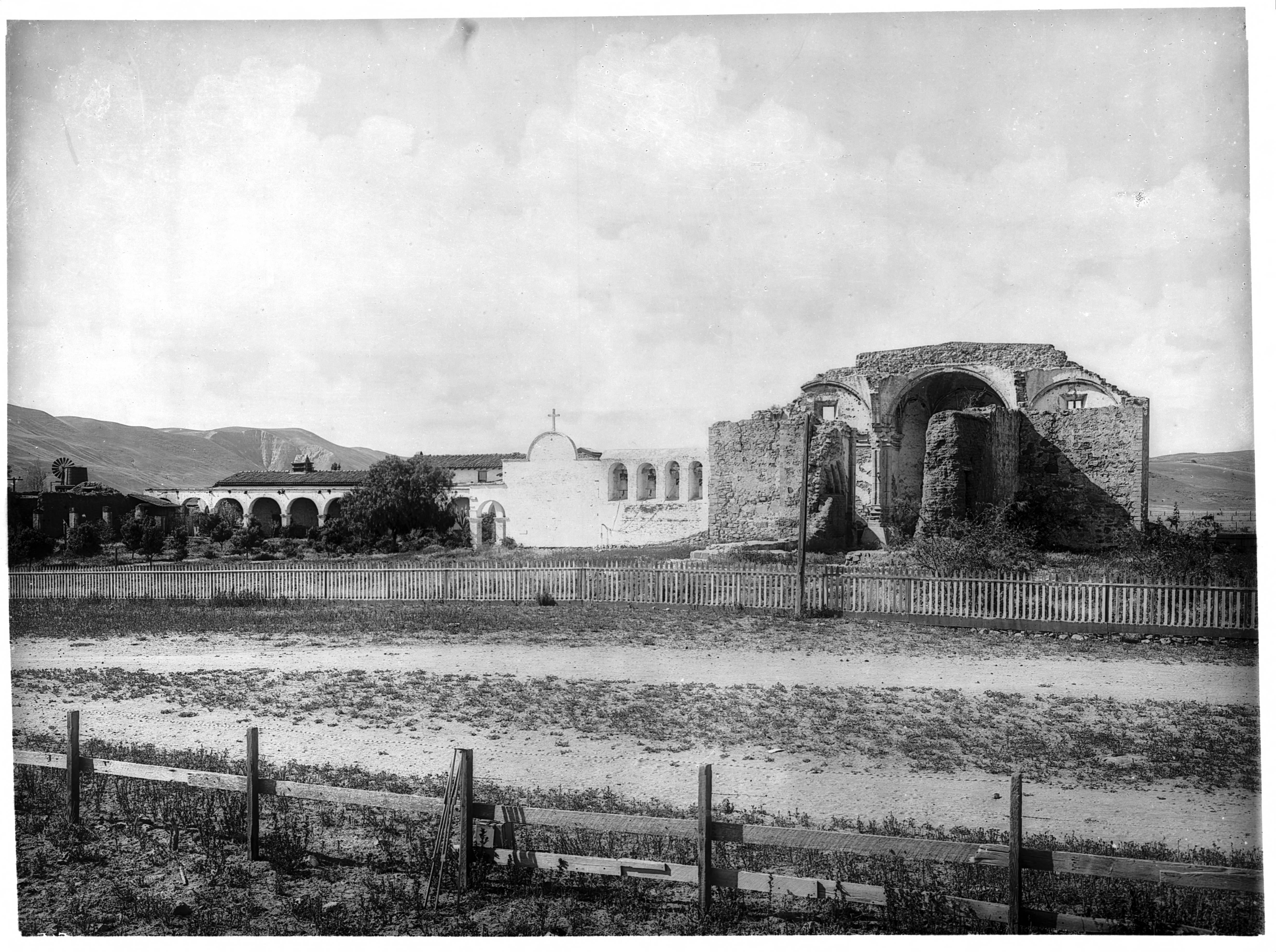 View of Mission San Juan Capistrano, from the east, ca.1900 Photograph of a view of Mission San Juan Capistrano, from the east, ca.1900. Arches and a low building on the left, taller buildings on the right. A long picket fence separates the property from the road. On the other side of the road (foreground) is a wood rail and wire fence. A few trees are growing on the site. Mountains are visible in the background. Call number: CHS-717 Legacy record ID: chs-m14610; USC-1-1-1-14088 Photographer: Pierce, C.C. (Charles C.), 1861-1946 Filename: CHS-717 Coverage date: circa 1900 Part of collection: California Historical Society Collection, 1860-1960 Type: images Geographic subject (city or populated place): San Juan Capistrano Repository name: USC Libraries Special Collections Accession number: 717 Microfiche number: 1-137-33 Archival file: chs_Volume90/CHS-717.tiff Part of subcollection: Title Insurance and Trust, and C.C. Pierce Photography Collection, 1860-1960 Repository address: Doheny Memorial Library, Los Angeles, CA 90089-0189 Geographic subject (country): USA Format (aacr2): 2 photographs : glass photonegative, photoprint, b&w ; 17 x 22 cm., 21 x 26 cm. Rights: Digitally reproduced by the USC Digital Library; From the California Historical Society Collection at the University of Southern California Subject (adlf): religious facilities Project: USC Repository Contributing entity: California Historical Society Date created: circa 1900 Publisher (of the digital version): University of Southern California. Libraries Format (aat): photographic prints; photographs Geographic subject (state): California Subject (file heading): Mission San Juan Capistrano Format: glass plate negatives Access conditions: Send requests to address or e-mail given. Phone (213) 821-2366; fax (213) 740-2343. Geographic subject (county): Orange Subject (lcsh): Missions, Spanish Subject: San Juan Capistrano Mission